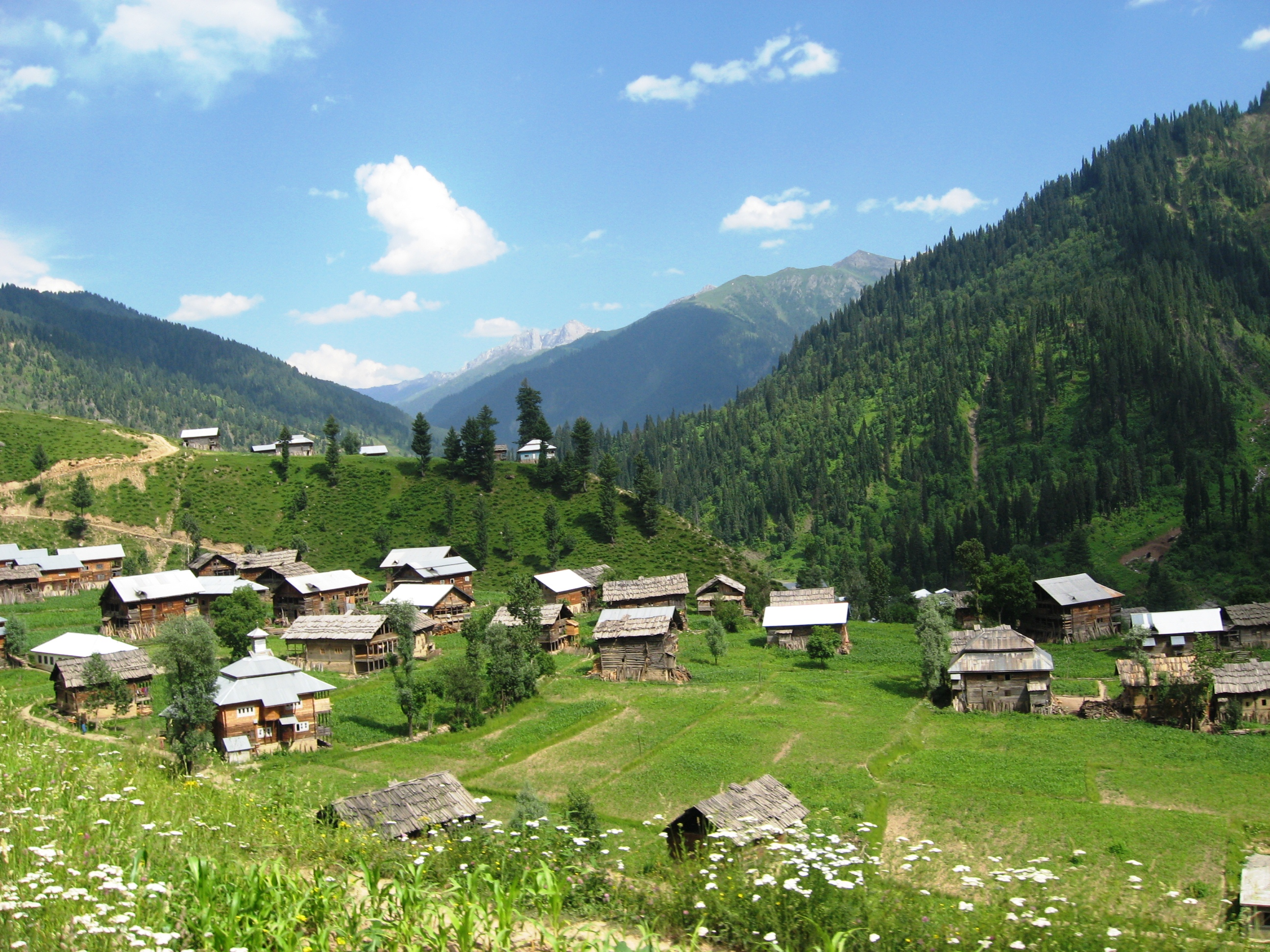 Halmat Village, kel in Neelum Valley